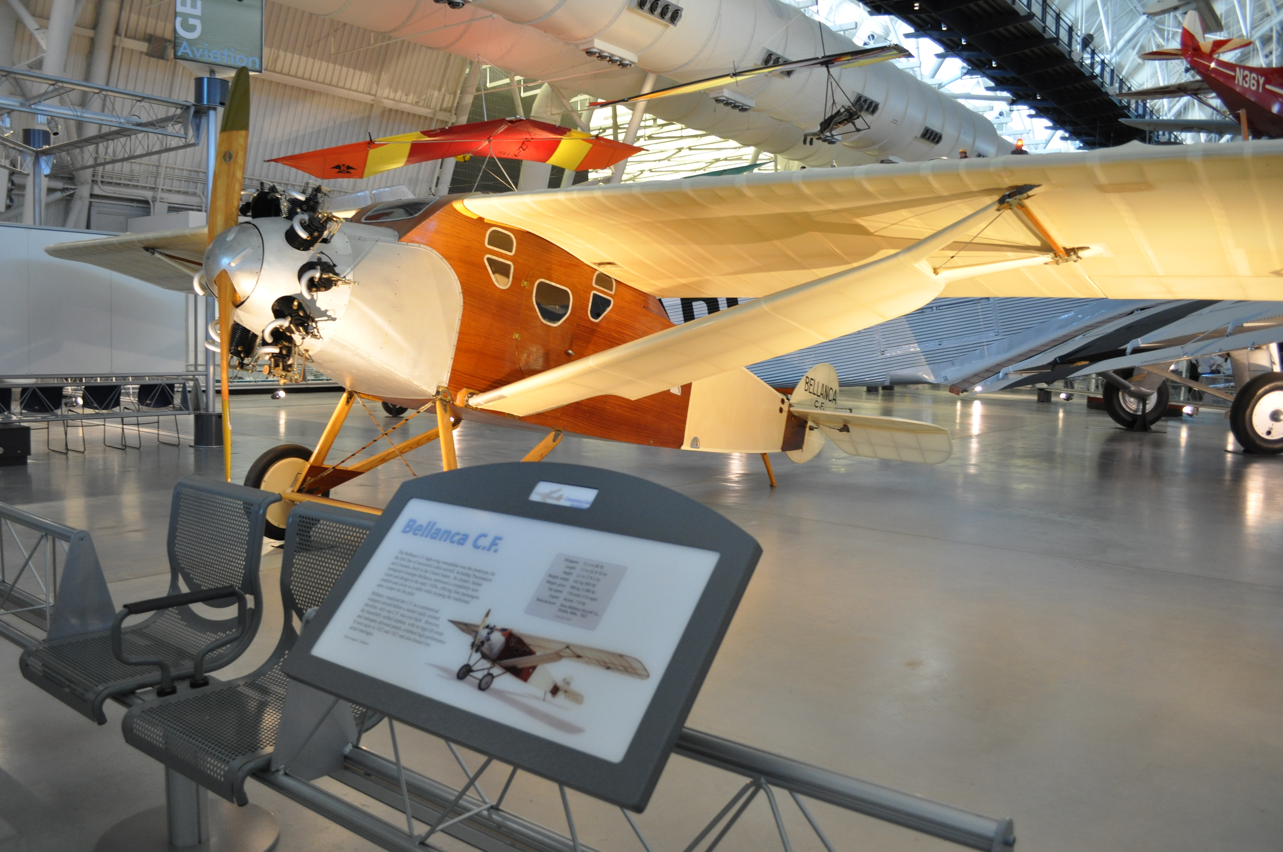 Several photos from the Steven F. Udvar-Hazy Center at the Smithsonian National Air and Space Museum Bellanca CF at NASM